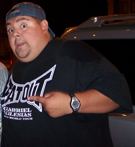 Photo was taken with my personal digital camera after Gabriel Iglesias' performance at the Comedy & Magic Club in Hermosa Beach, CA, USA